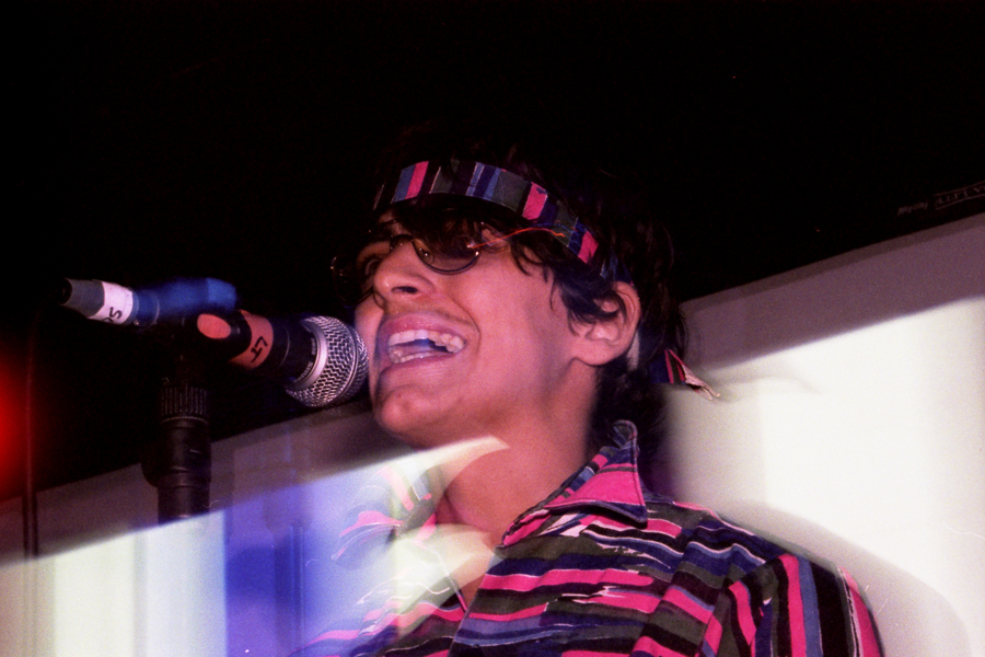 Le Tigre band member JD Samson performing live.